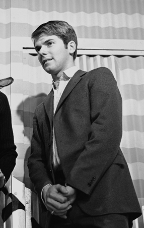 Ronnie Tober in Dutch television show Fenklup in 1967.